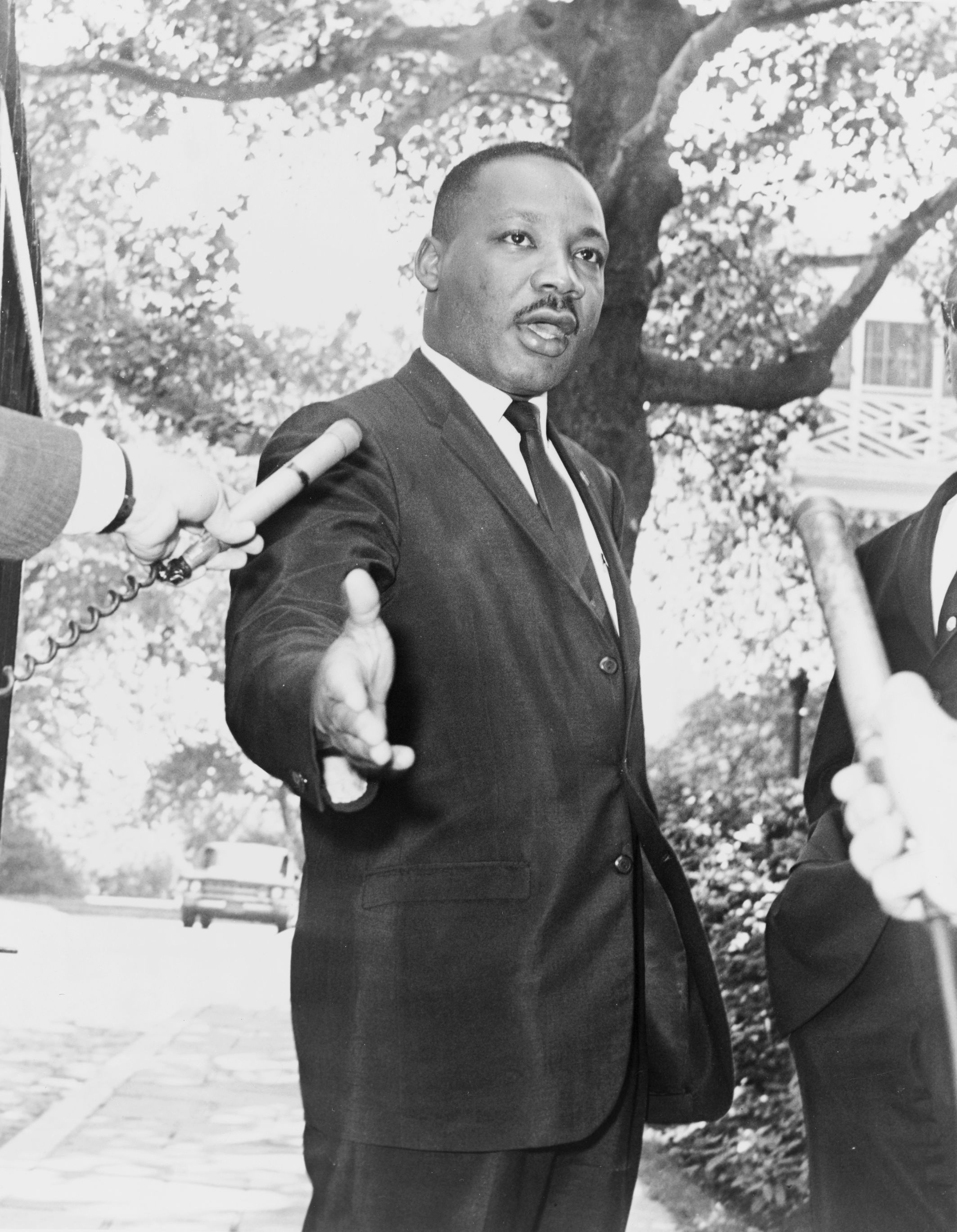 Gracie Mansion, Rev. Martin Luther King press conference / World Telegram & Sun photo by Dick DeMarsico.